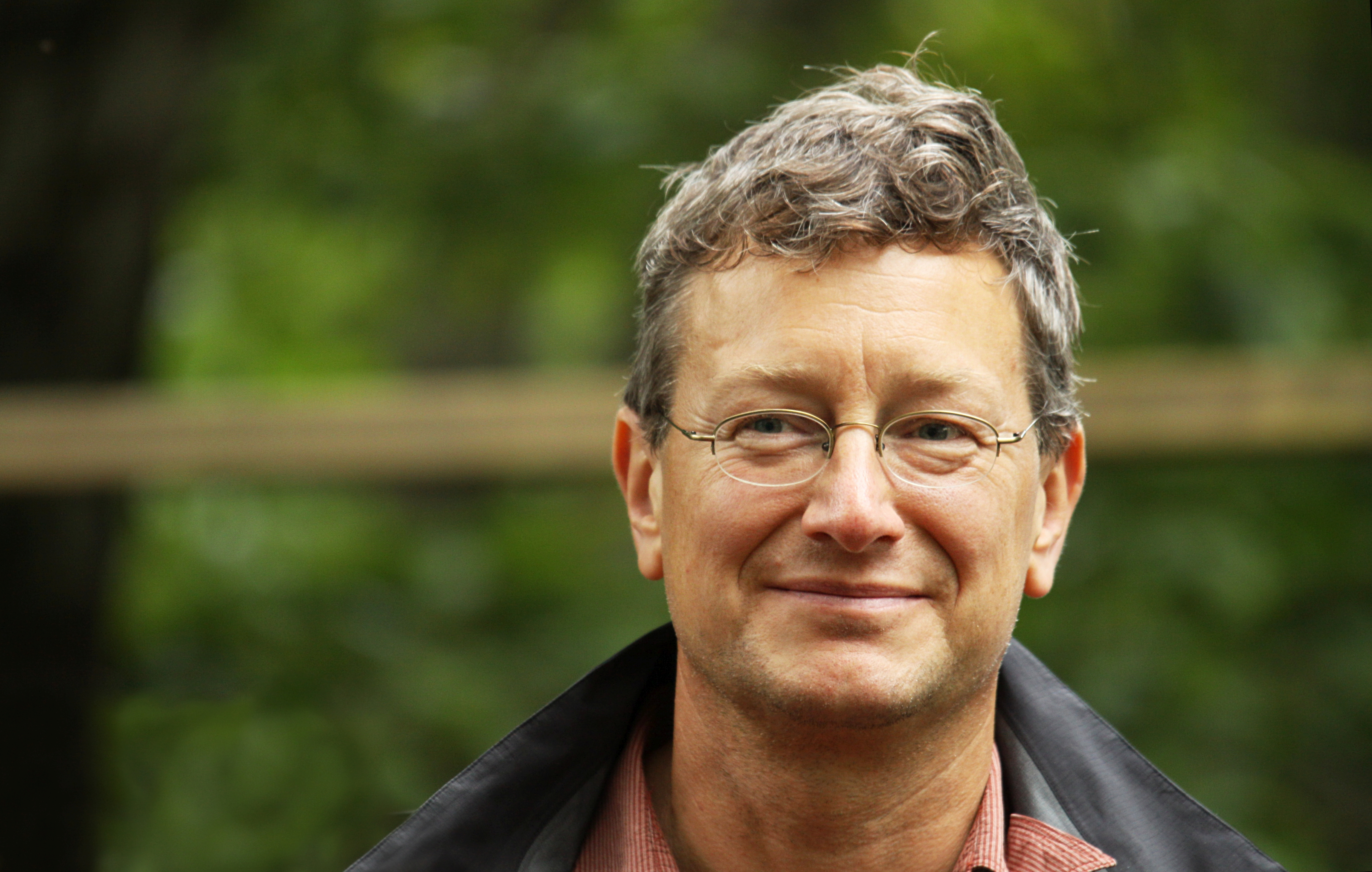 Ernst Hauber, German planetologist and geologist.